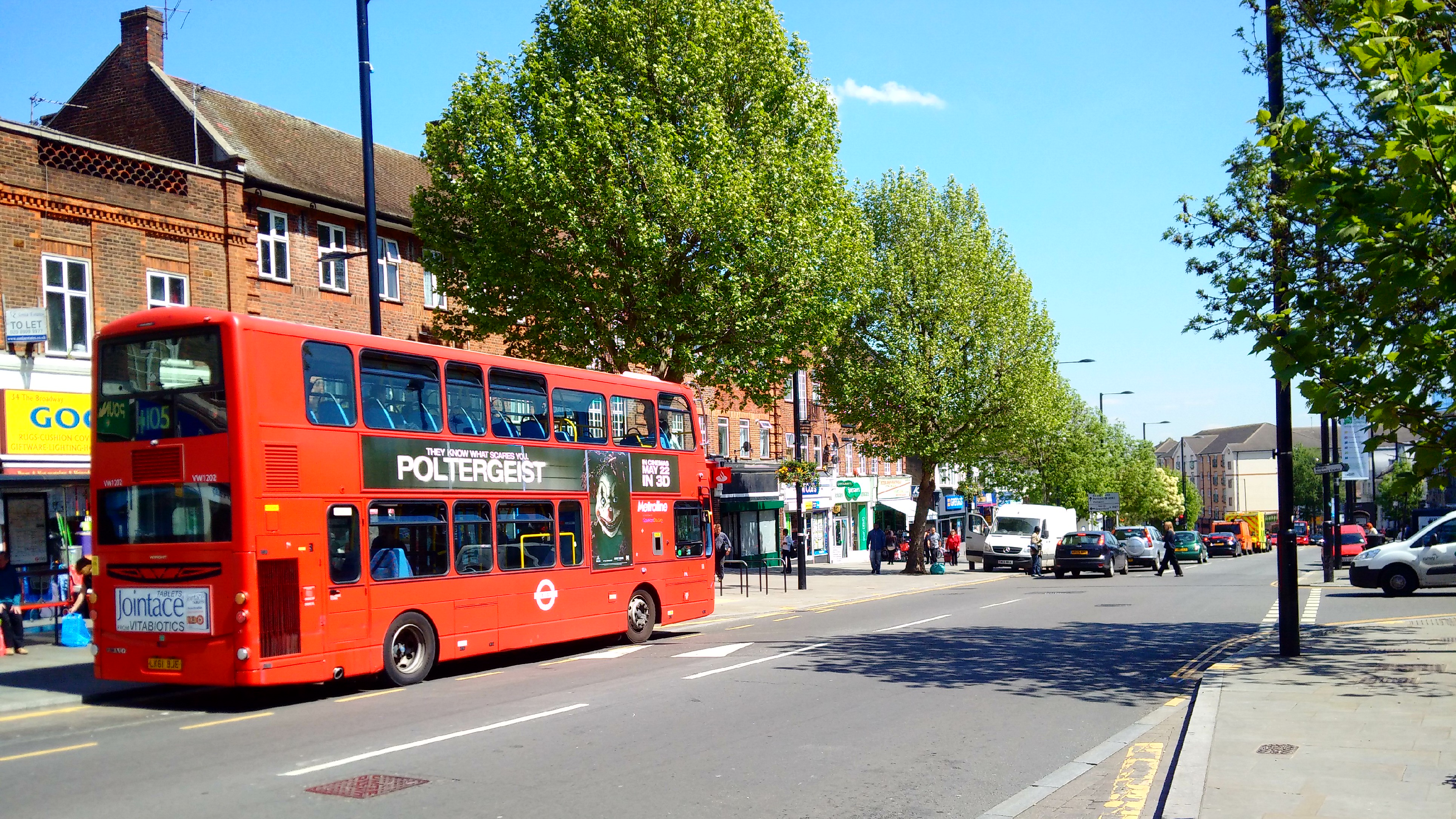 Ruislip Road in Greenford, London